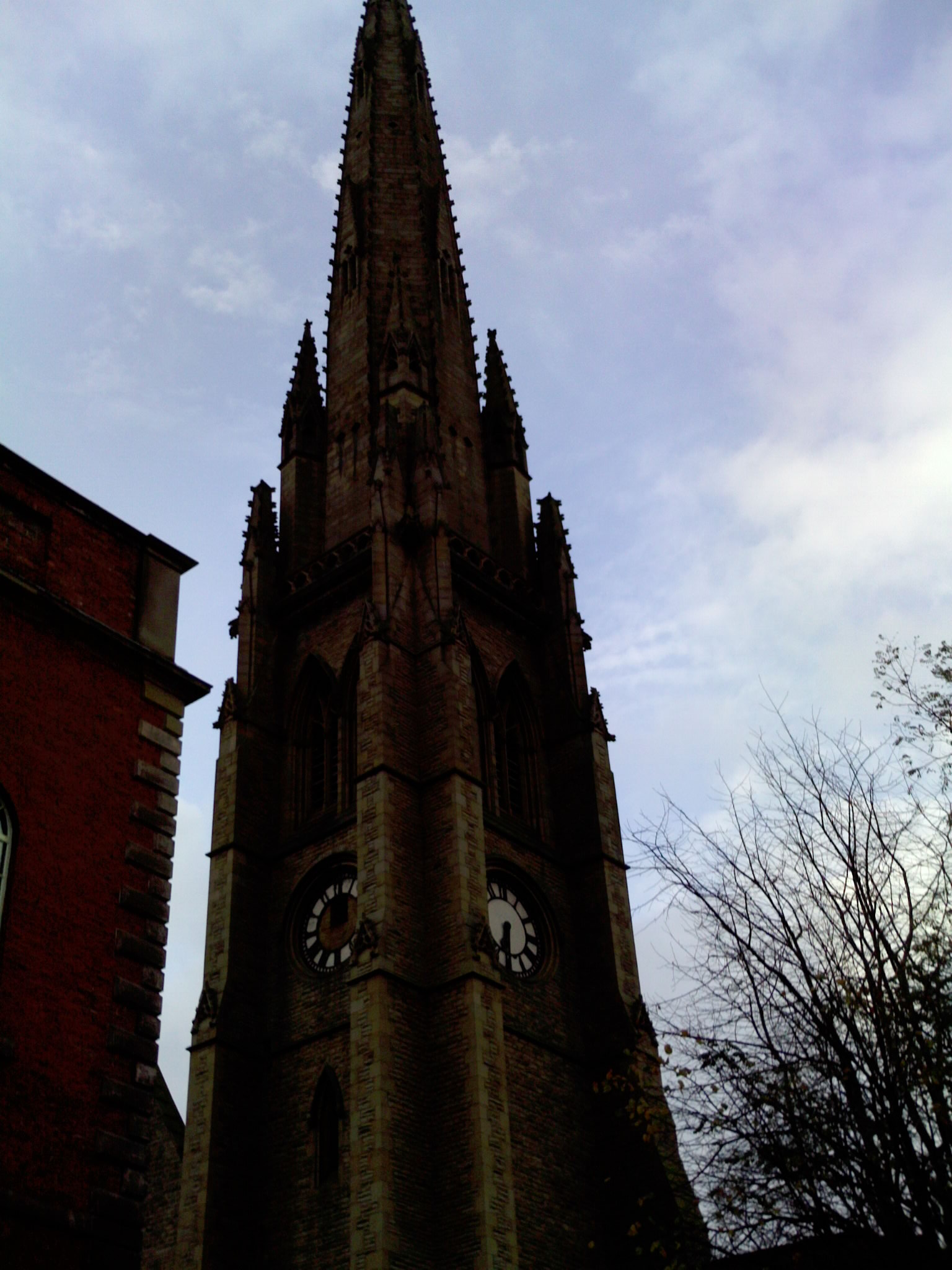 The tower of the Square Chapel (now an arts centre) in Halifax, West Yorkshire. Taken on a Sunday in November 2009.